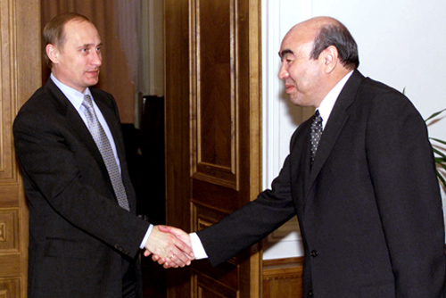 MINSK. President Vladimir Putin meeting with Kyrgyz President Askar Akayev.